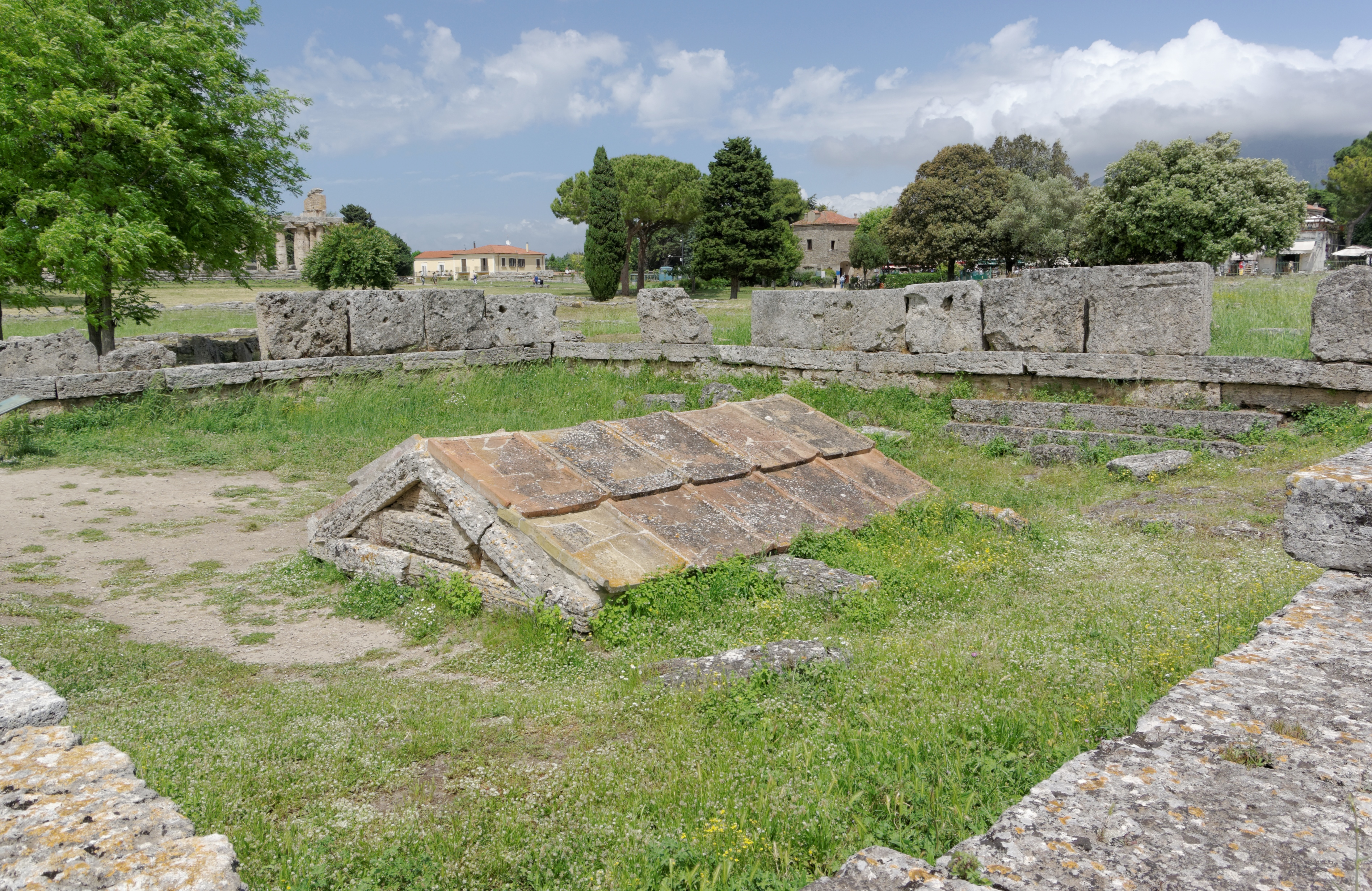 Italy, Paestum, sacello heroon